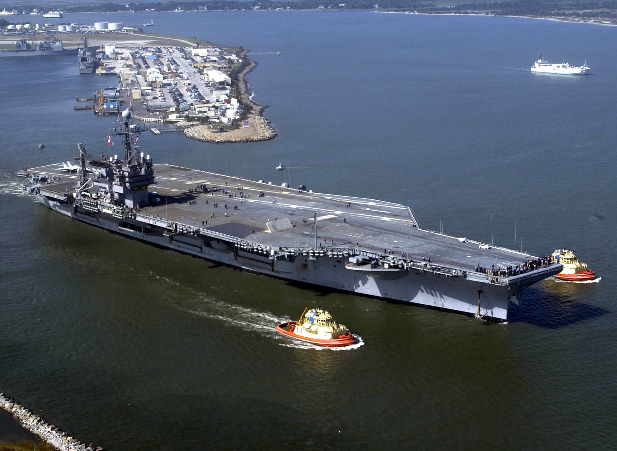 Mayport, Fla. (Nov. 11, 2003) -- USS John F. Kennedy (CV-67) departs Naval Station Mayport under her own power following a ten month Extended Service Repair Availability (ESRA). During a short at sea period the ship tested numerous systems installed or upgraded while in port. The $300 million maintenance period included renovation of berthing compartments, and new navigational radar system.